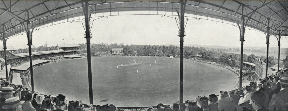 Melbourne Cricket Ground, 1912 Our Catalogue Reference: Part of CO 1069/623. This image is part of the Colonial Office photographic collection held at The National Archives. Feel free to share it within the spirit of the Commons. For high quality reproductions of any item from our collection please contact our image library.